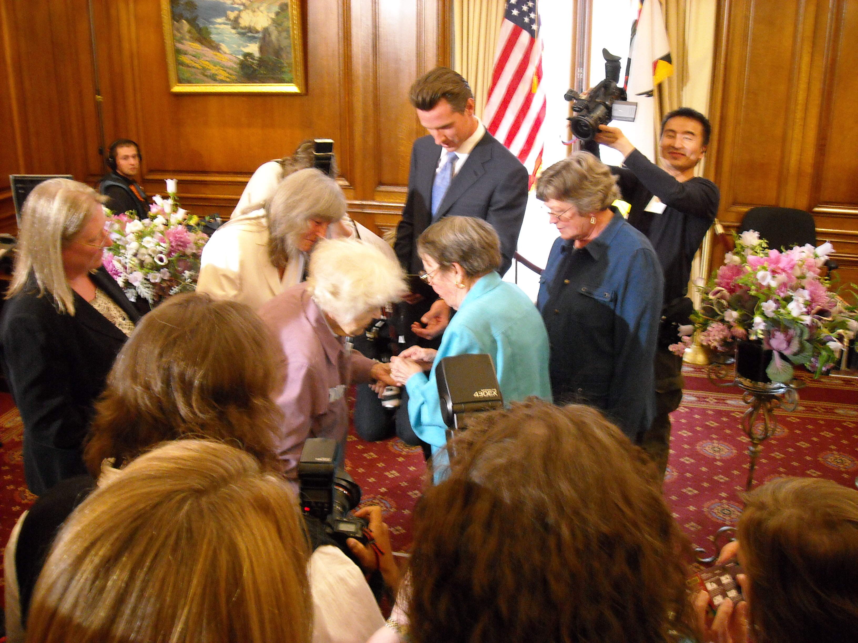 Marriage of Del Martin and Phyllis Lyon by San Francisco Mayor Gavin Newsom.